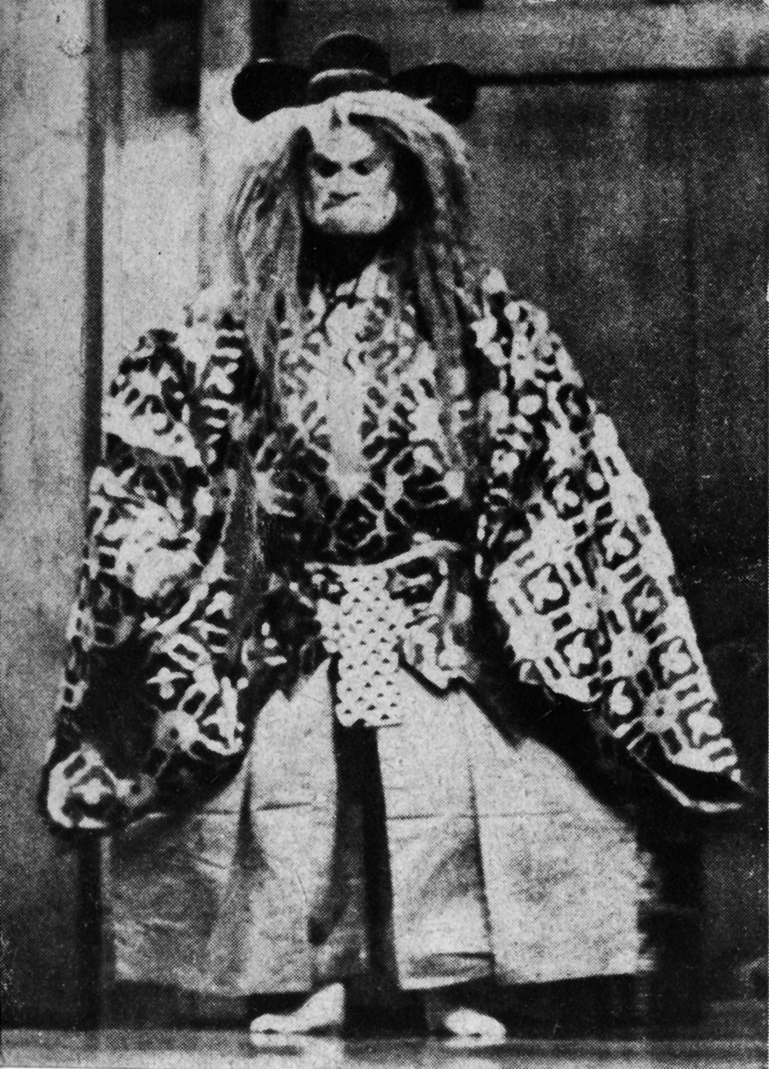 stage photo: Noh play Matsuyamakagami, KANZE Kasetsu